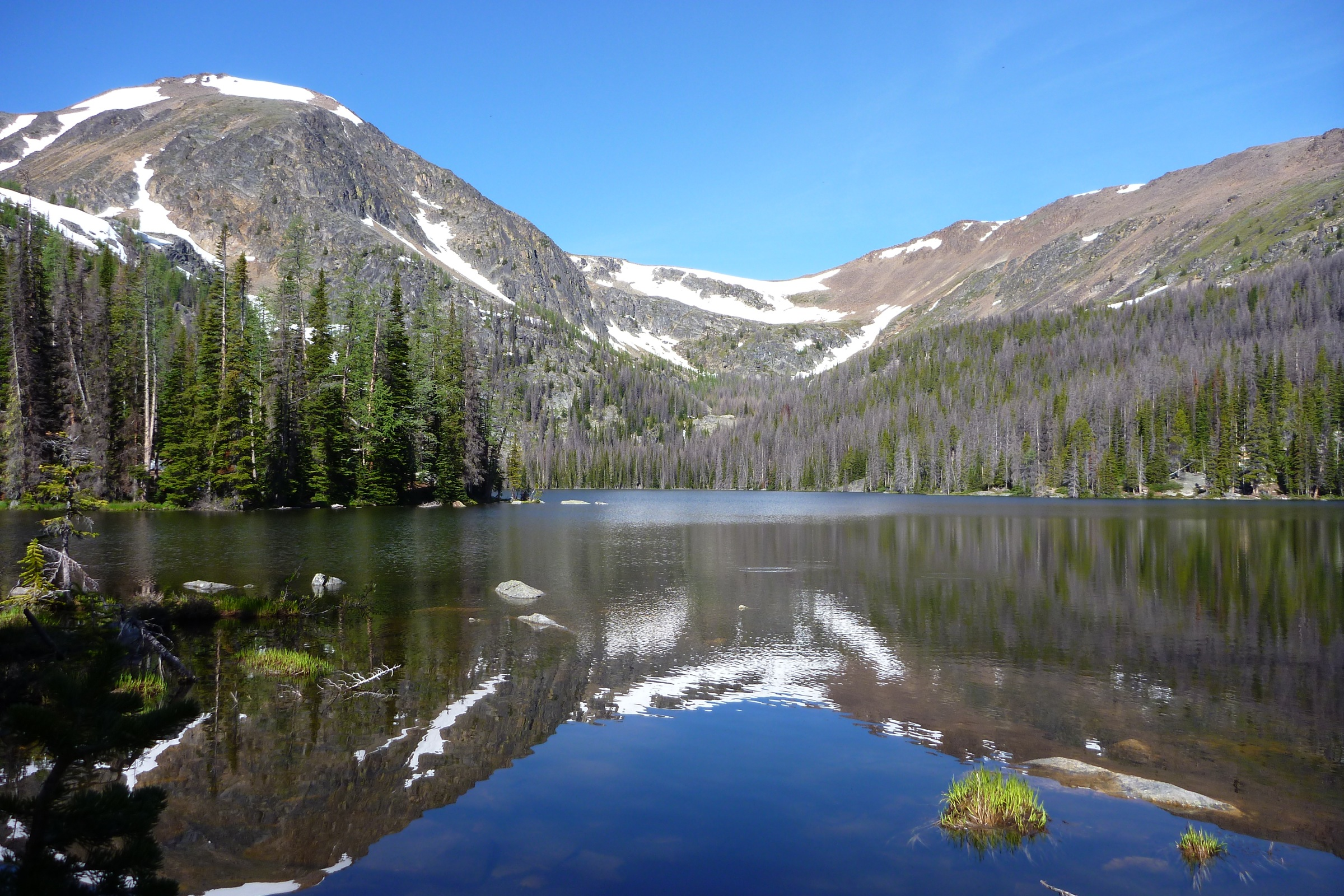 View of Quiniscoe Mountain and Lake, Cathedral Provincial Park